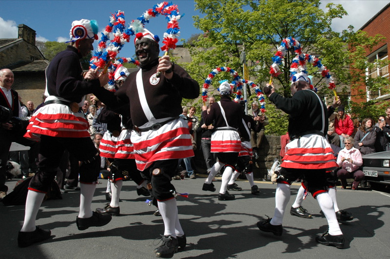 Traditional dance and customs general gallery